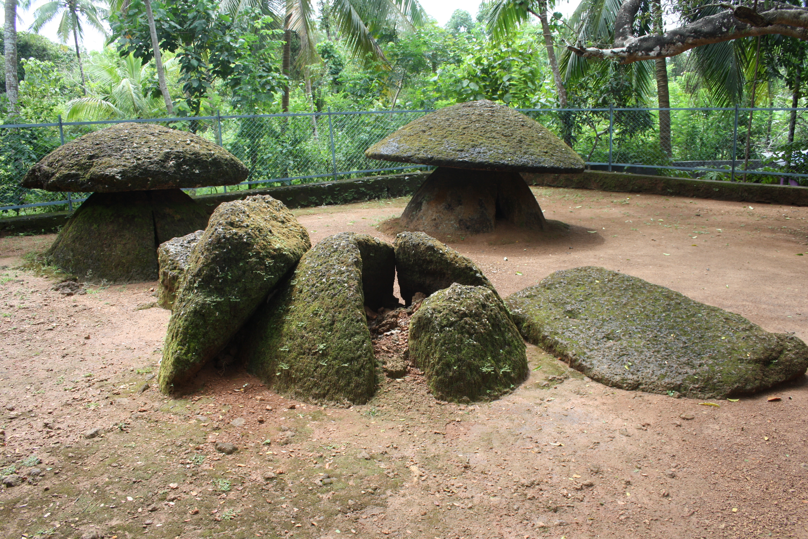 Ariyannur Umbrellas are situated in Ariyannur, Thrissur District. Ariyannur is one of the famous megalithic sites in Kerala. It has huge umbrellas stones covering the burials. Six umbrella stones stand here in a ground in a group. Of them four are intact and two are partly broken. The megalithic burials are the predominant archaeological remains of the Iron Age. The site is protected under the control of Archaeological Survey of India, Thrissur, since 1951.